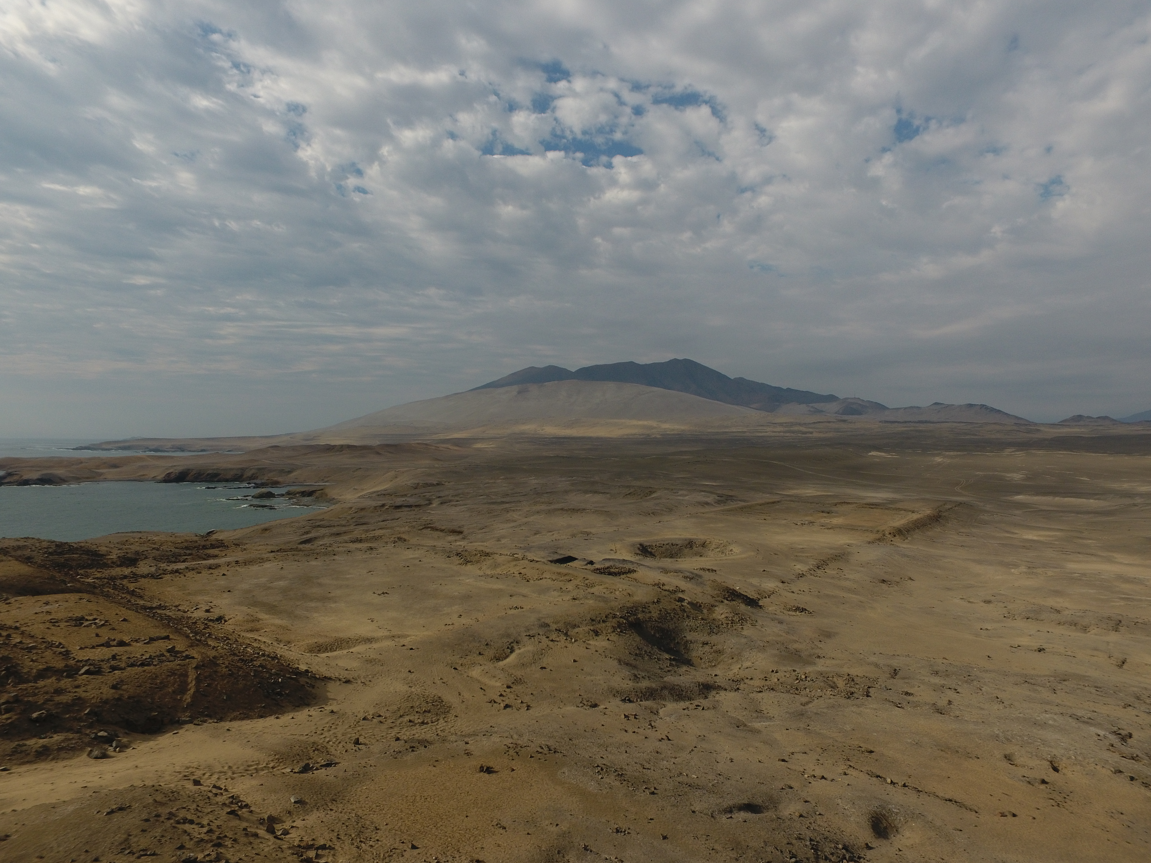 Side view of the main building of Las Aldas, 2017.